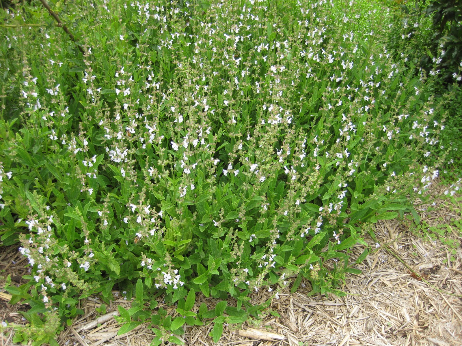 Photographed at the Royal Botanic Gardens Sydney (Australia) in January